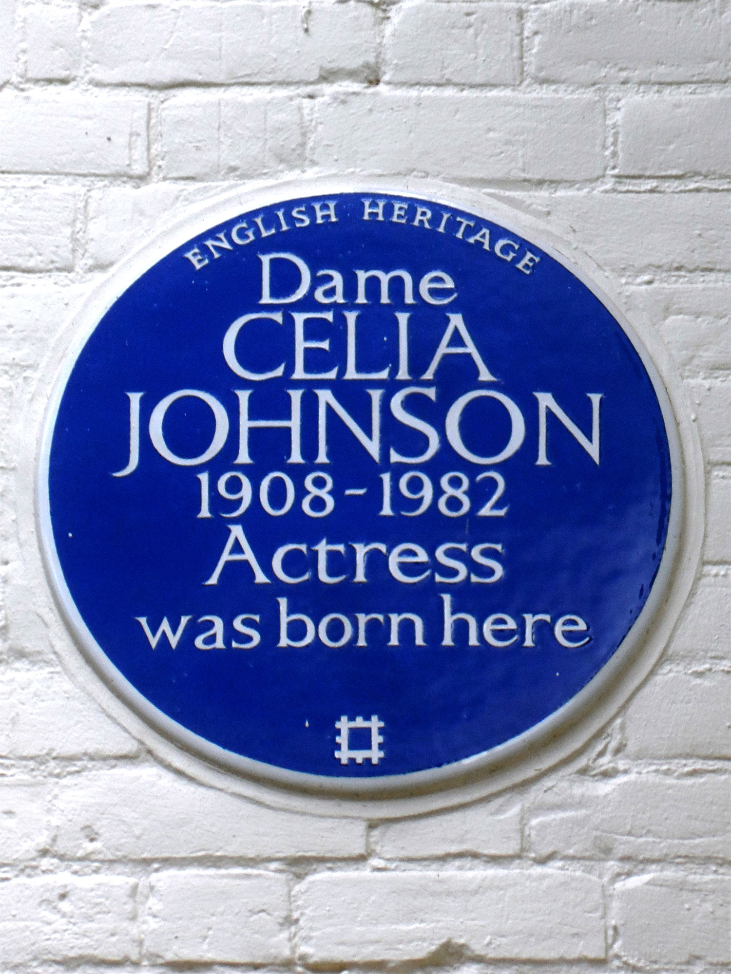 Blue plaque erected in 2008 by English Heritage at 46 Richmond Hill, Richmond, London TW10 4QX, London Borough of Richmond upon Thames